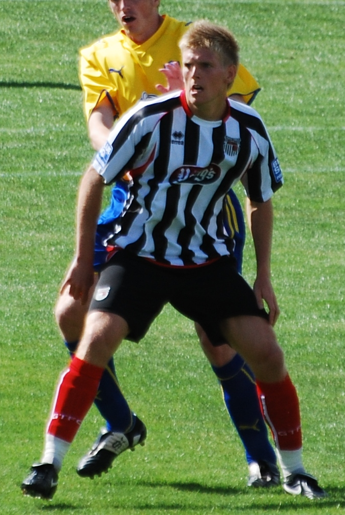 Alan Connell. Image cropped from original at flickr.